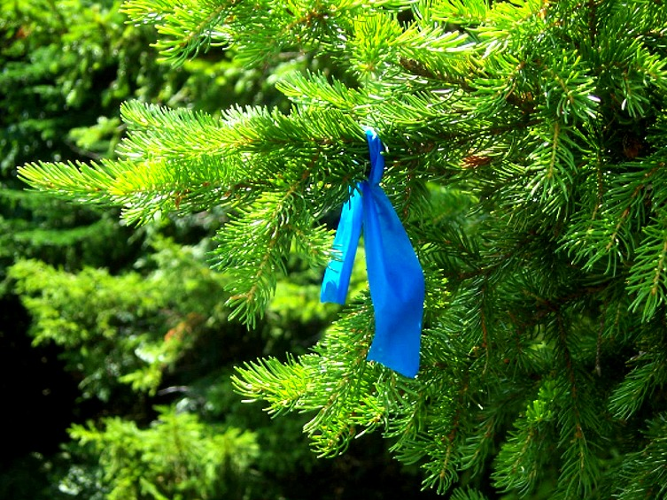 Photographed on the Escarpment Trail on North Point in the Catskills by Daniel Case 2005-08-03